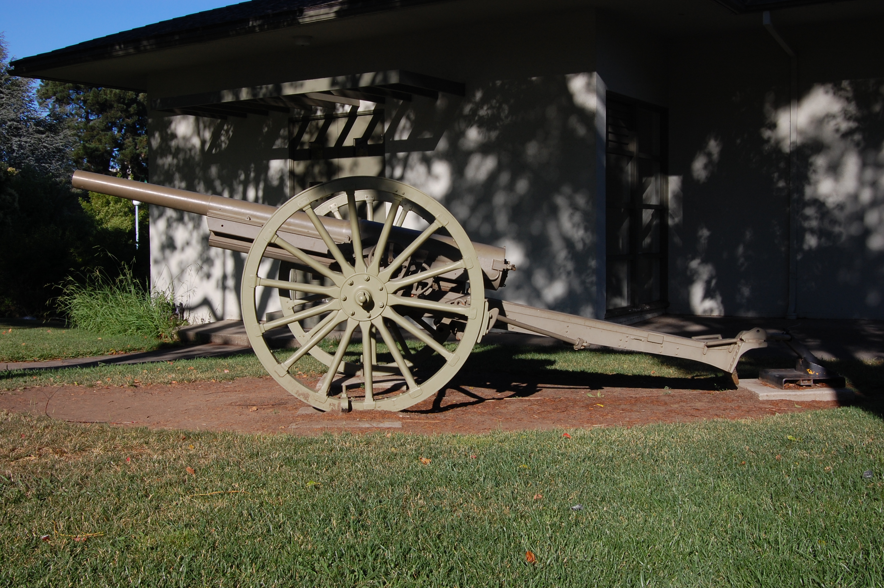 75mm Field Gun Model 1897 near Veterans Memorial building. Benicia, California, USA